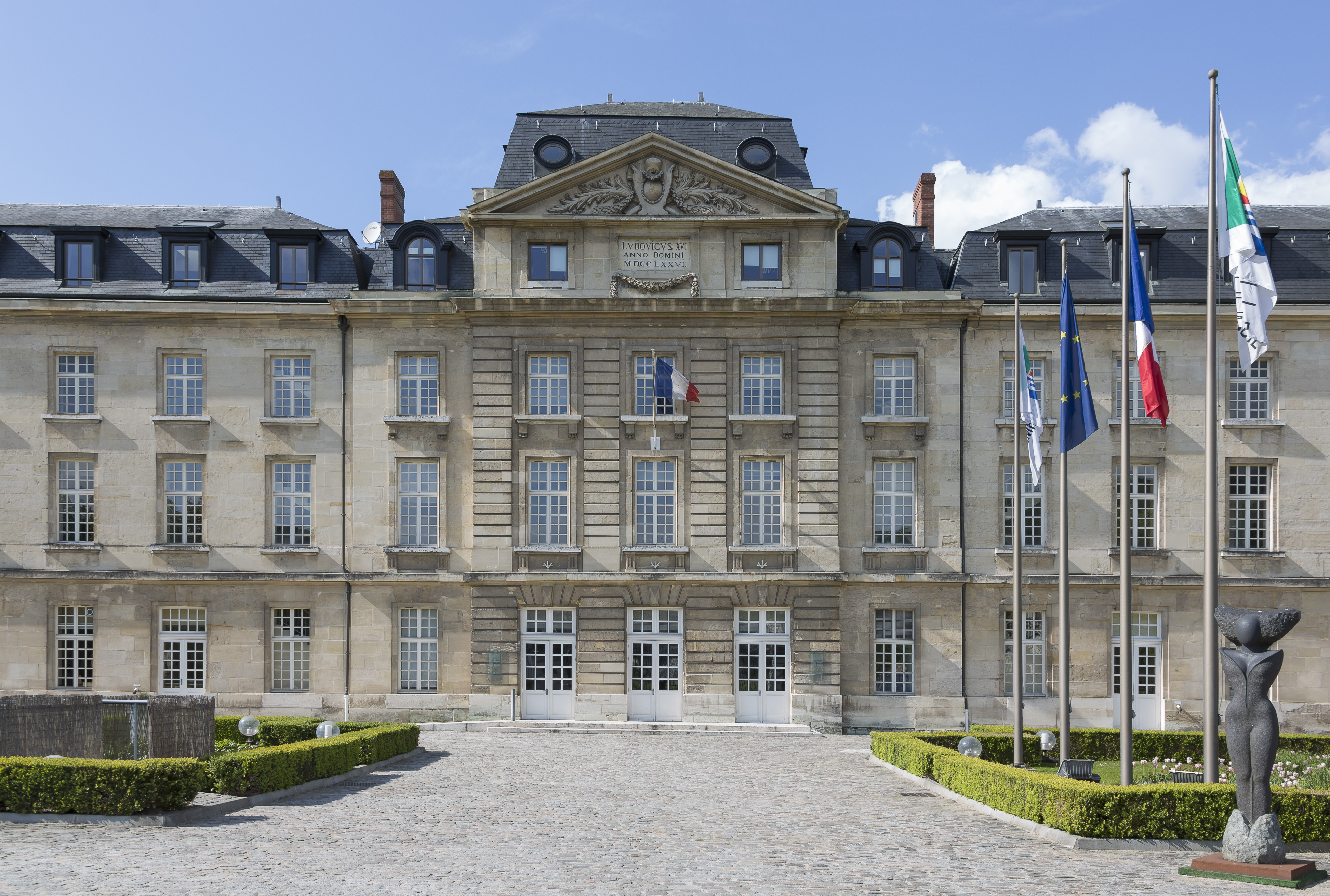 Rouen, France: Conseil Régional de Haute-Normandie